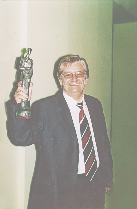 Titus Jucov - the director of the Chisinau theater for children of "Licurici".